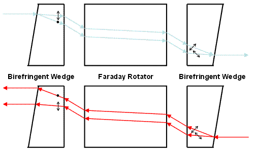 The operation of a polarization independent isolator, showing the propagation of light through the structure. The forward travelling light is shown in blue, and the backward propagating light is shown in red. The rays were traced using an ordinary refractive index of 2, and an extra-ordinary refractive index of 3. The wedge angle is 7 degrees. The first birefringent wedge has its slow axis vertical and its fast axis horizontal. The Faraday rotator is a 45 degree rotator. The second birefringent wedge has its slow axis at 45 degrees and its fast axis at -45 degrees. Therefore light travelling in the forward direction experiences symmetric refraction. Due to the non reciprocal rotation, the light travelling in the backward direction experiences asymmetric refraction, hence is diverged. Upload drew the image